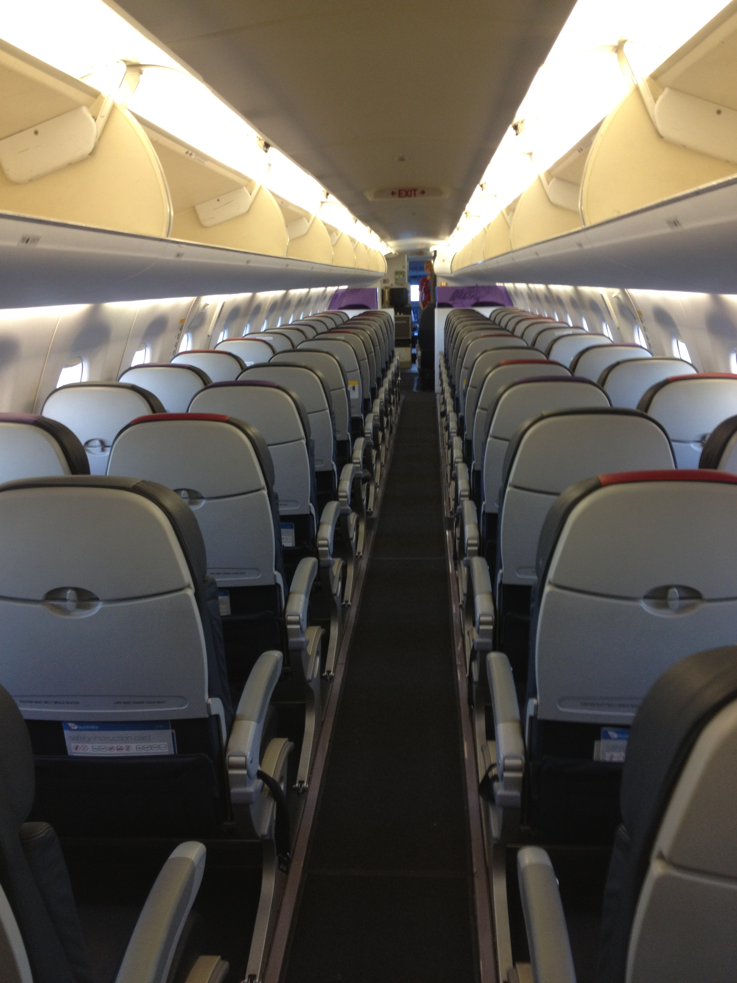 Interior of an Virgin Australia, still in the Virgin Blue livery, (VH-ZPK) Embraer 190, after a flight from Canberra to Sydney.